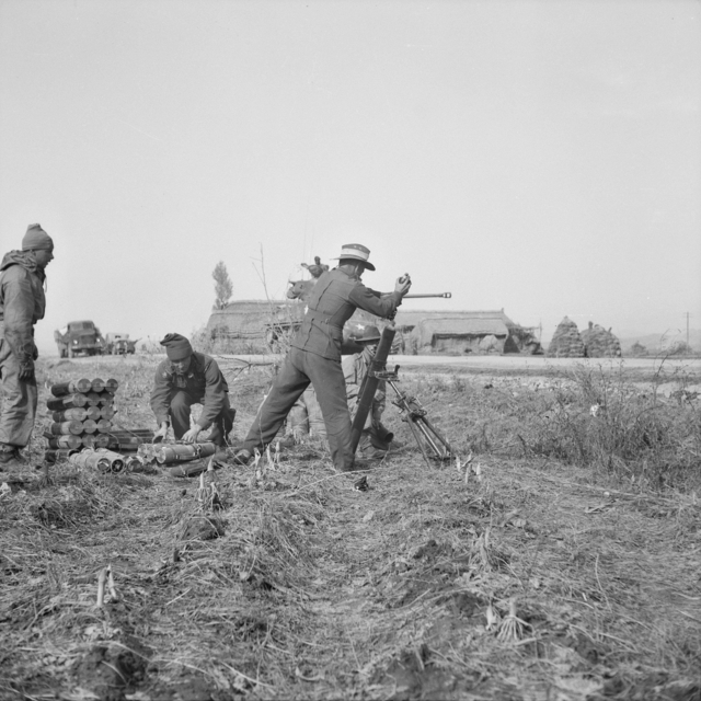 Pakchon, Korea. 1950-11-05. Mortar crew of 3rd Battalion, The Royal Australian Regiment (3RAR), in action.